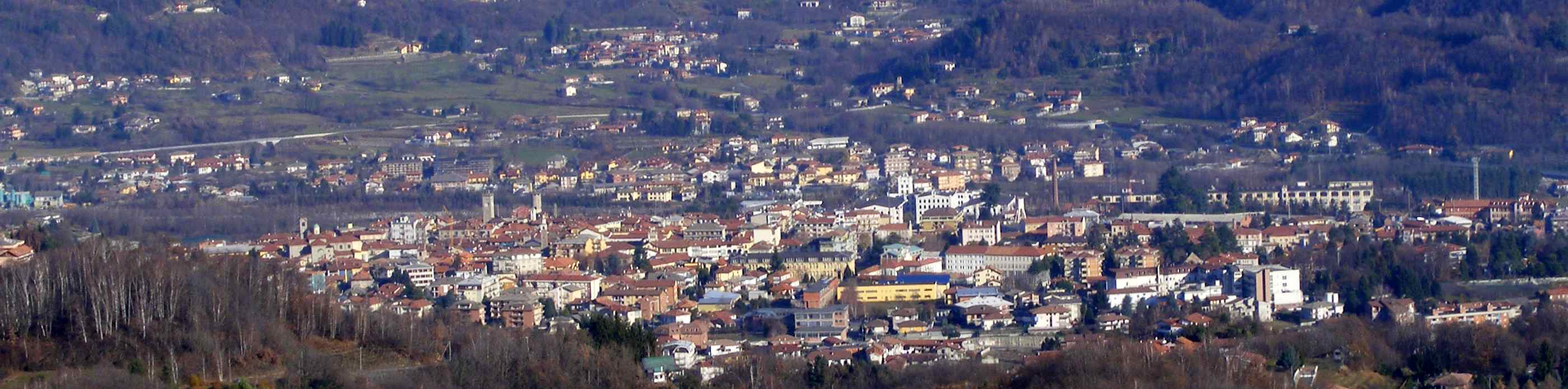 Panorama of Cuorgné (TO, Italy) from Belmonte sanctuary